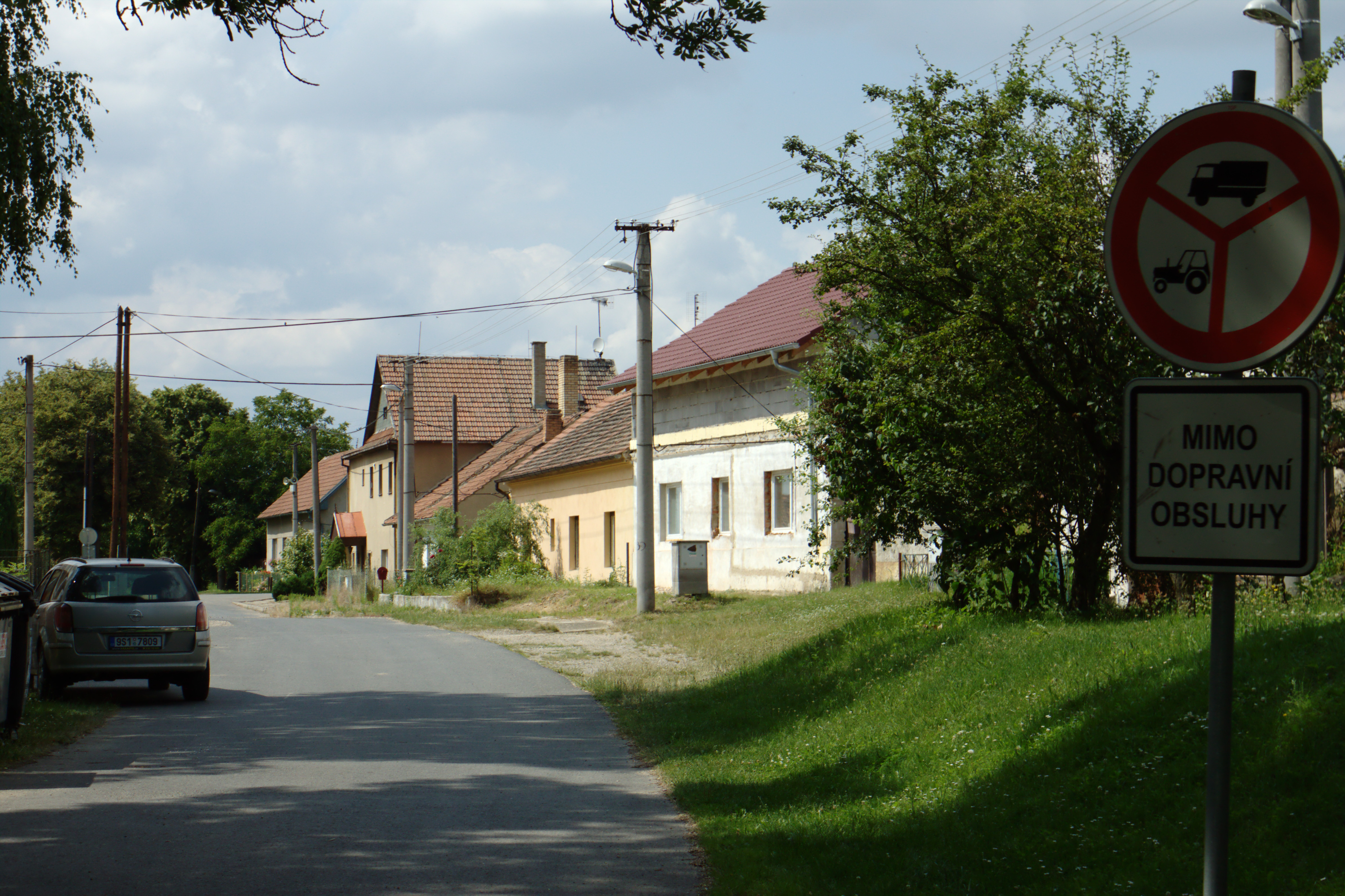 A road passing through the town of Budihostice, Central Bohemian Region, CZ